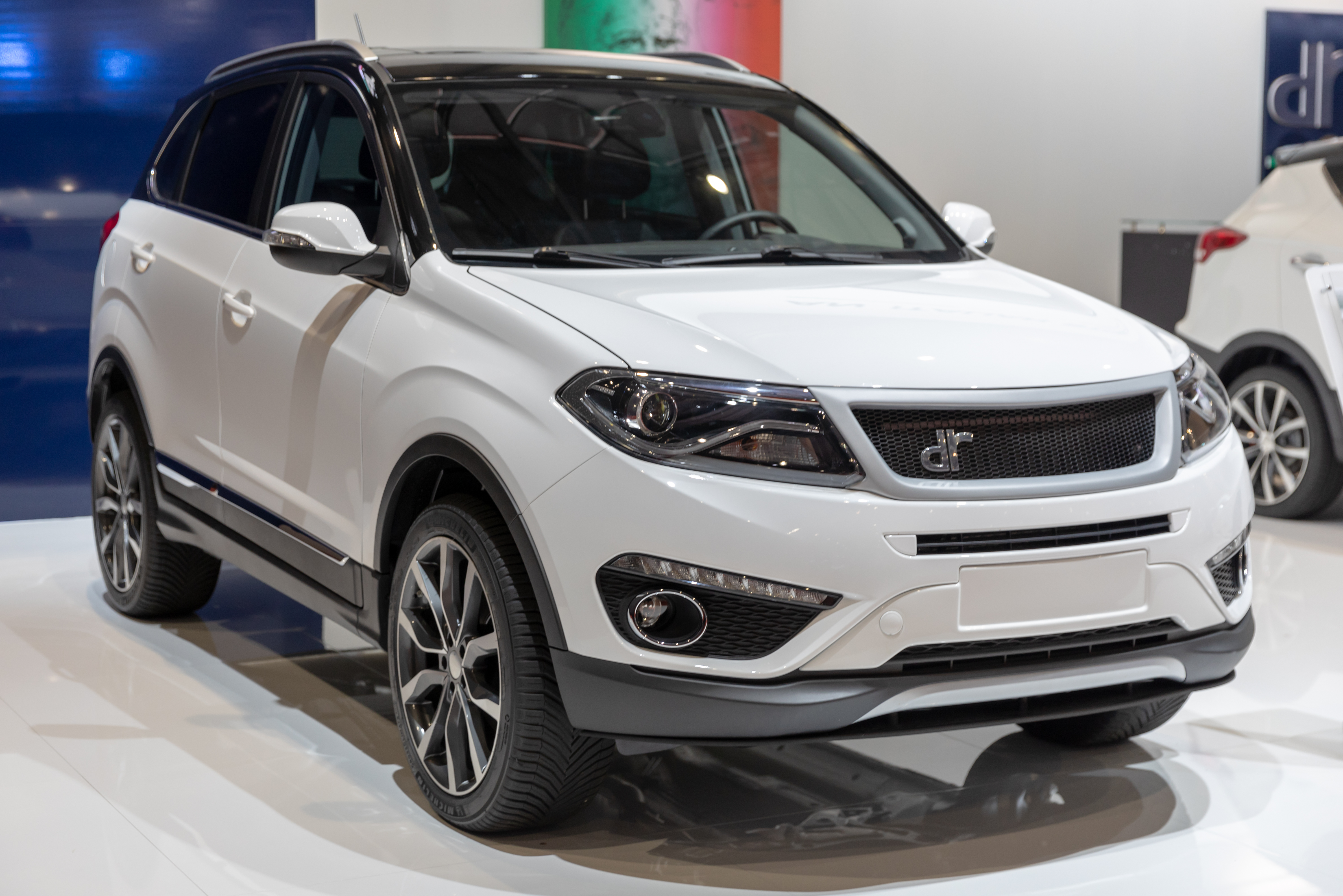 DR Automobiles, Geneva International Motor Show 2019, Le Grand-Saconnex